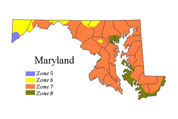 The 2003 USDA Hardiness Zone map of Maryland.